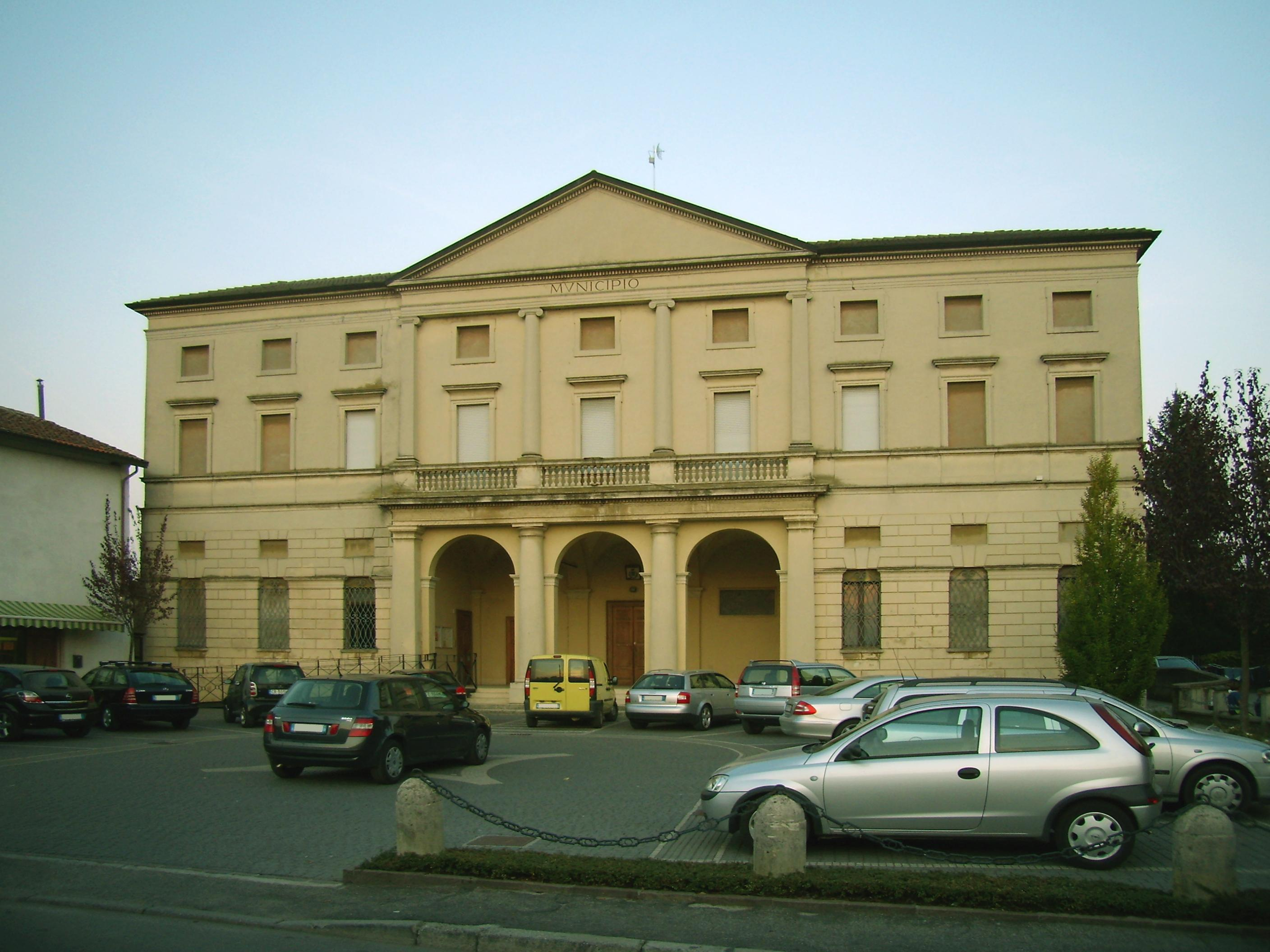 Former villa Settala, now town hall of Genivolta (CR), Italy